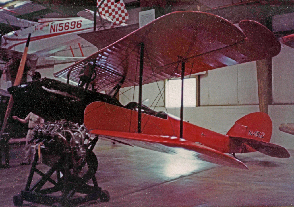 Waco 9 N452 of 1925 at the NASM facility at Silver Hill, Maryland, in 1982.